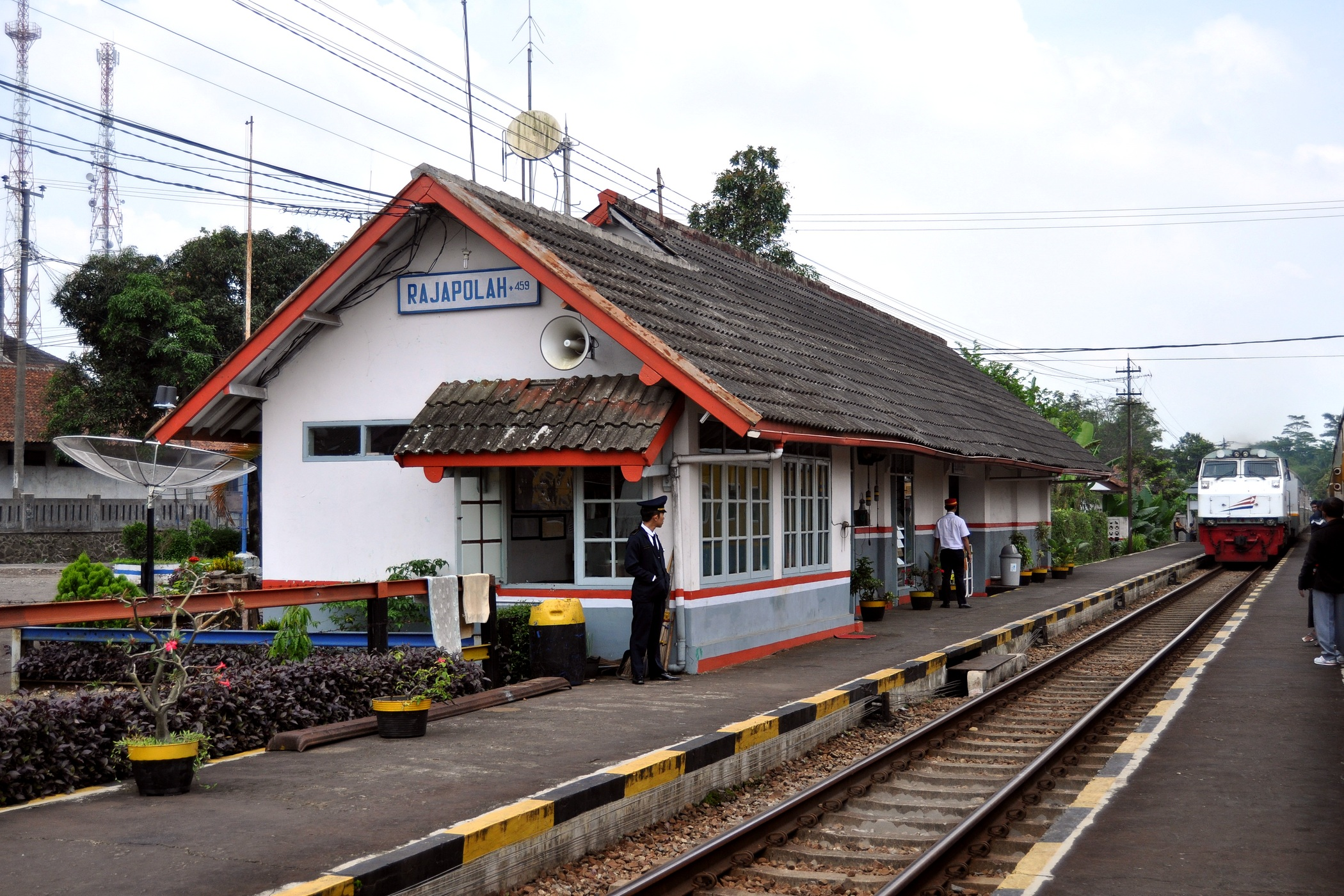 Rajapolah train station near Tasikmalaya, West Java, Indonesia. With Argo Wilis destination Surabaya passing by.